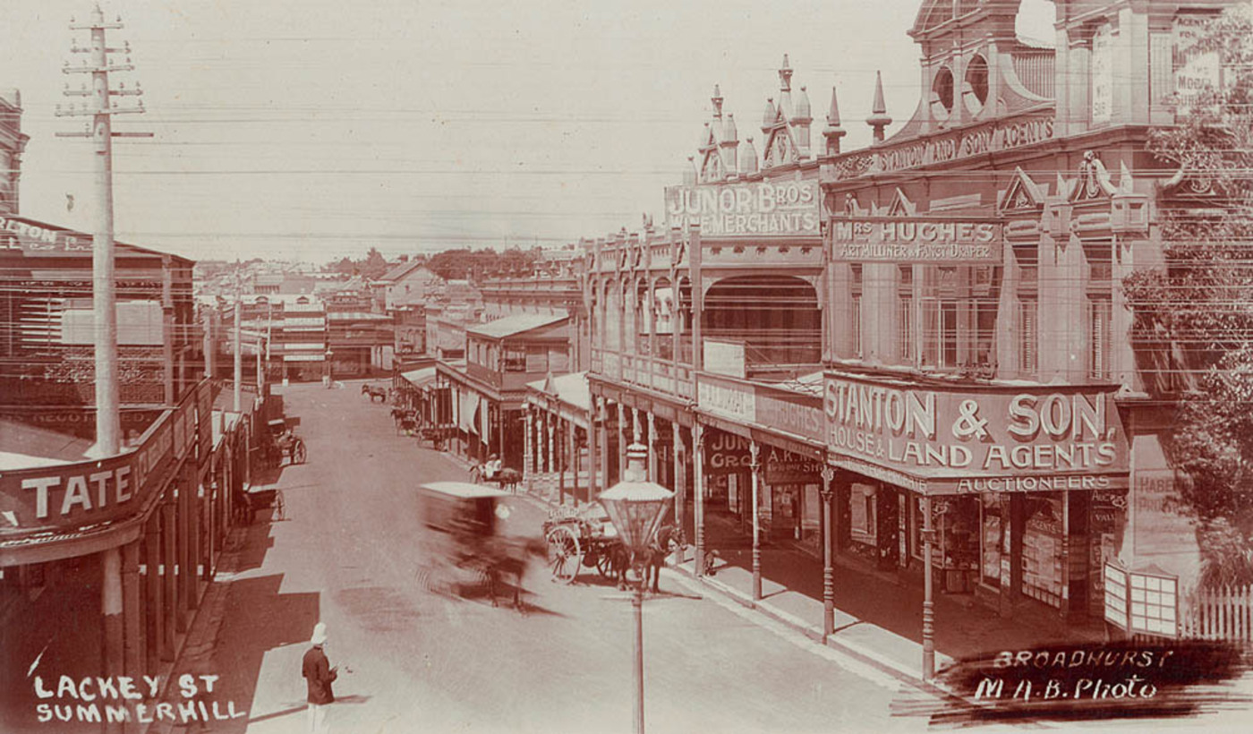 Lackey St., Summer Hill [including Stanton & Son, House & Land Agents]